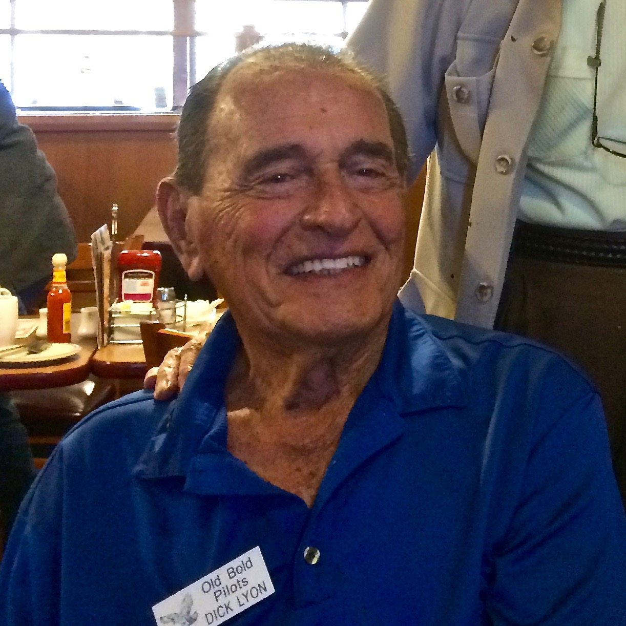 Admiral Richard Lyon at the Old Bold Pilots Association breakfast in Oceanside, California in 2014